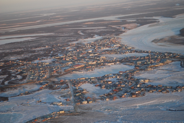 Aerial view of Bethel